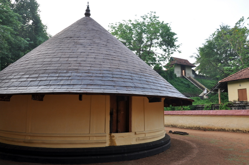 Sri Krishna Temple near the western entrance to Kaviyoor temple